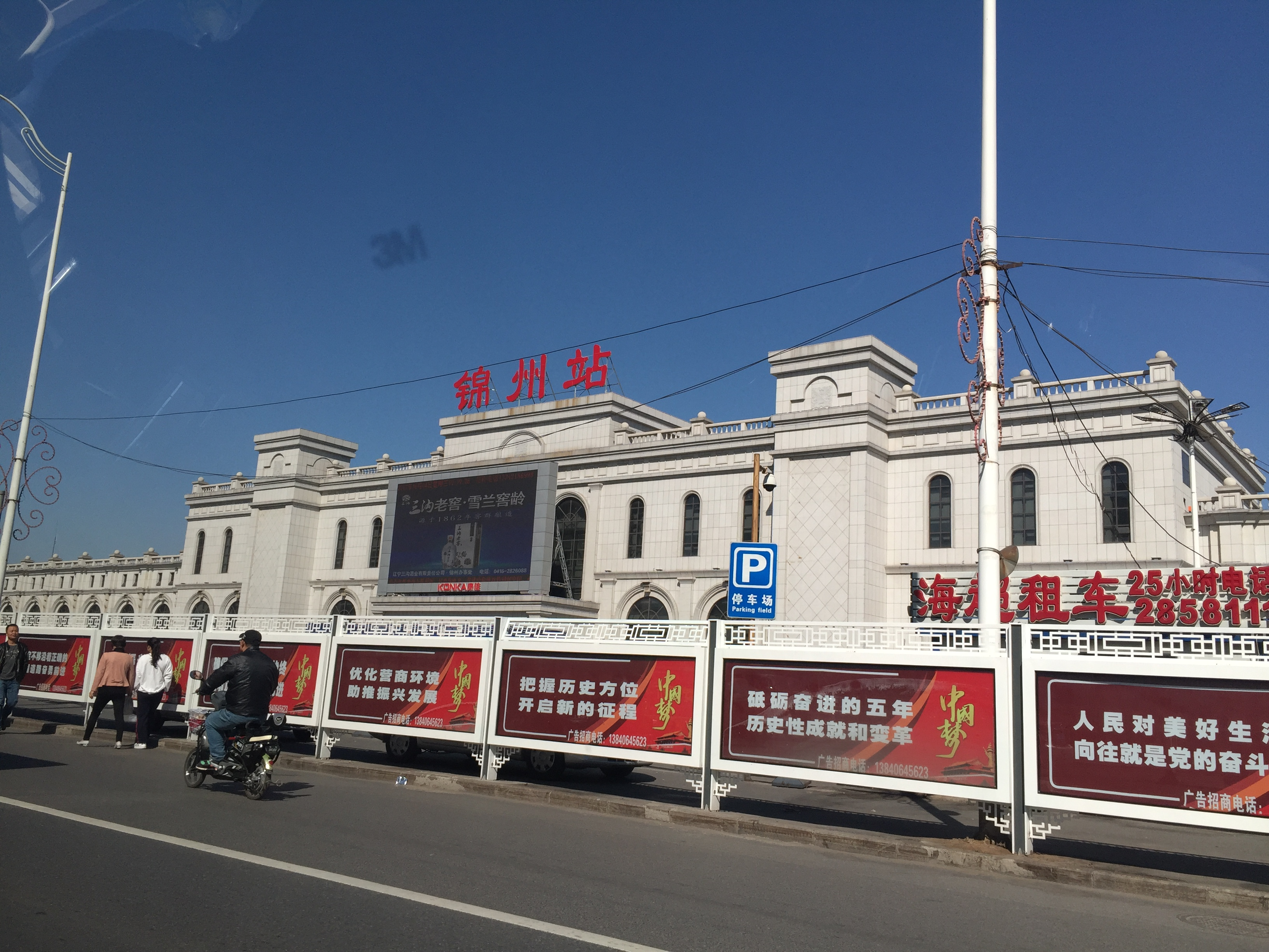 Jinzhou Railway Station (New)